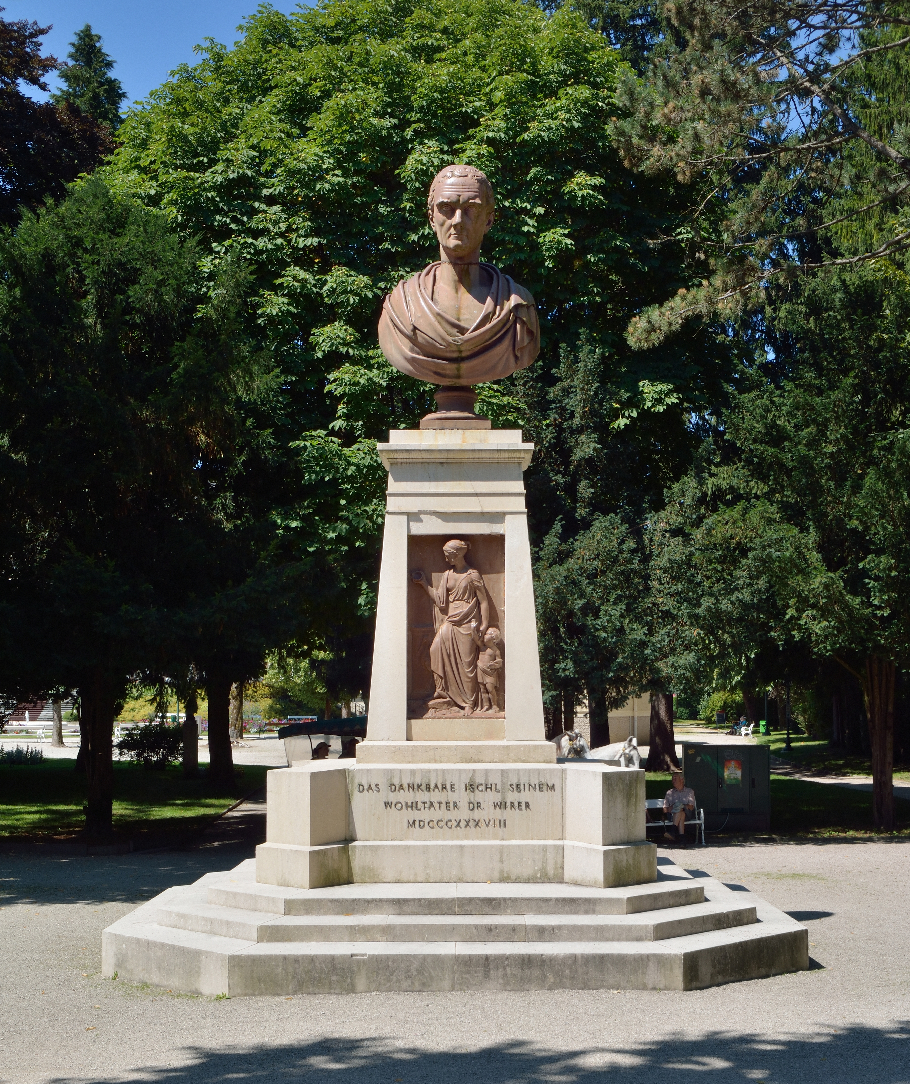 Monument to Franz von Wirer, Bad Ischl, Upper Austria